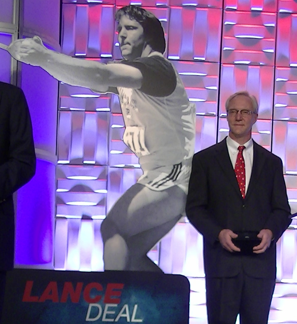 Lance Deal standing in front of his photographic statue while being inducted into the National Track and Field Hall of Fame